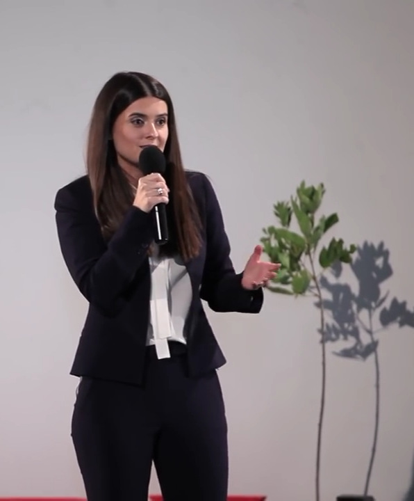 Hovannisian in October 2016 Depicted person: Larisa Hovannisian – Armenian American social entrepreneur and education activist